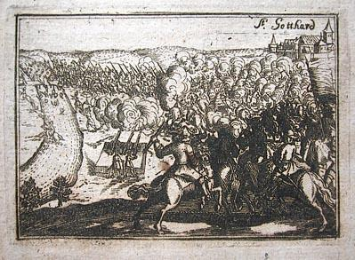 The Battle of Saint Gotthard